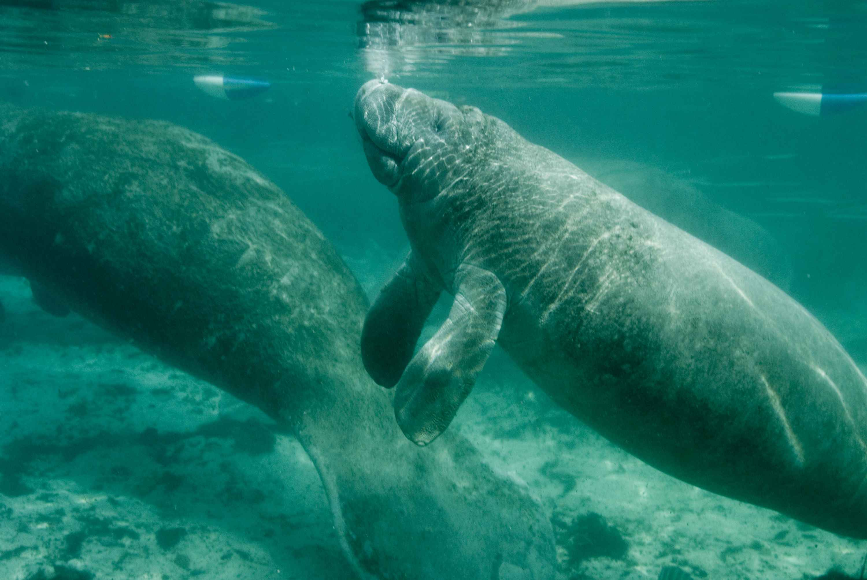 Image title: Manatees swimming Image from Public domain images website